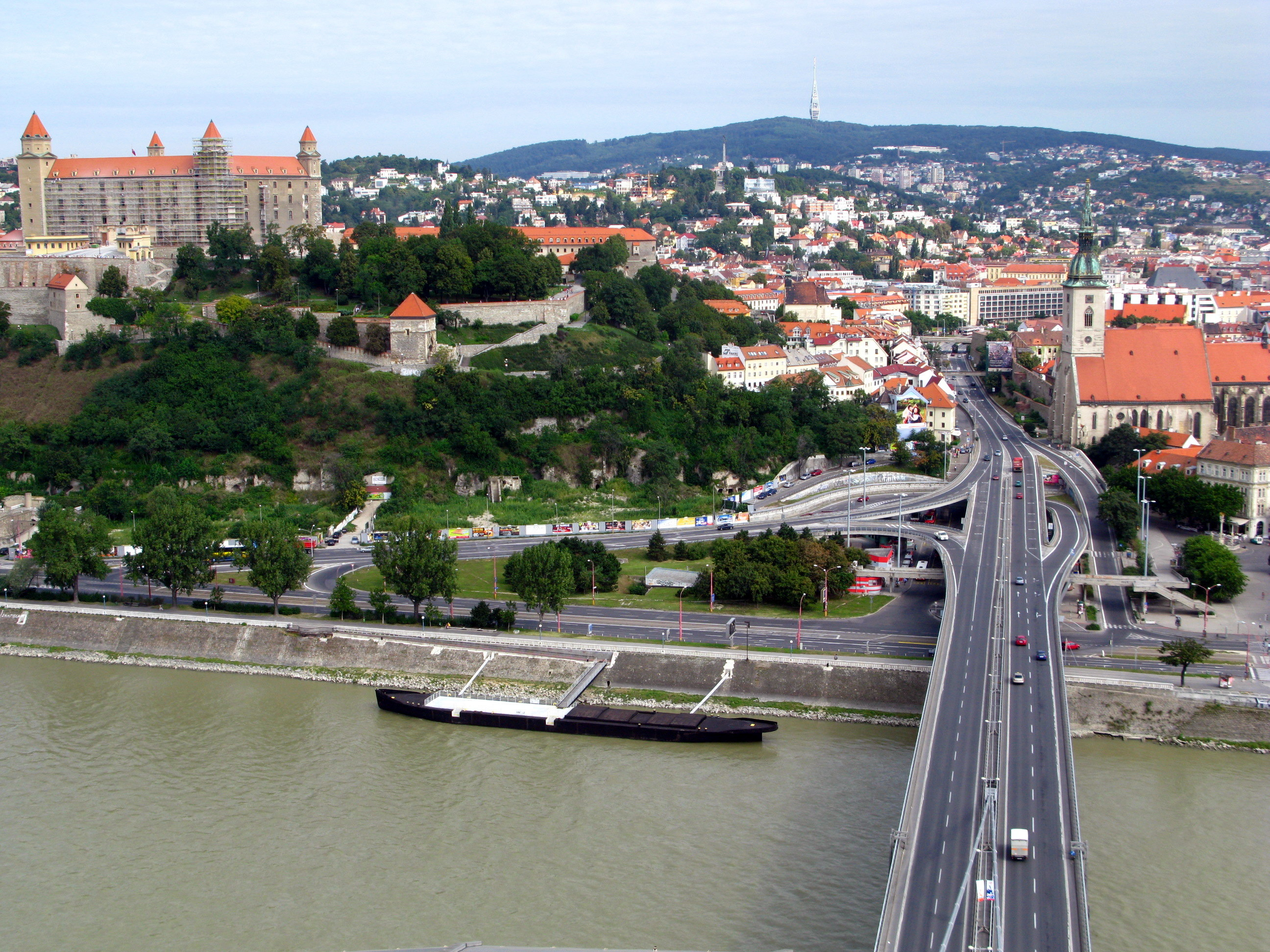 Castle and old city of Bratislava, separated through a motorway seen from the Nový most bridge.